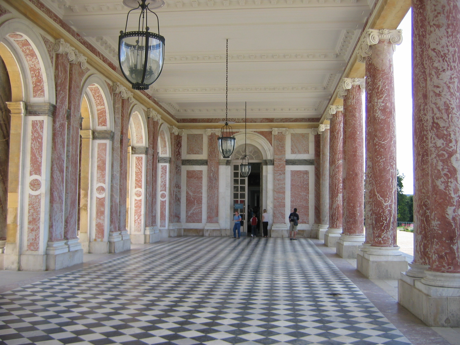 Grand Trianon, Versailles / Personal picture taken by User:Urban, 2004